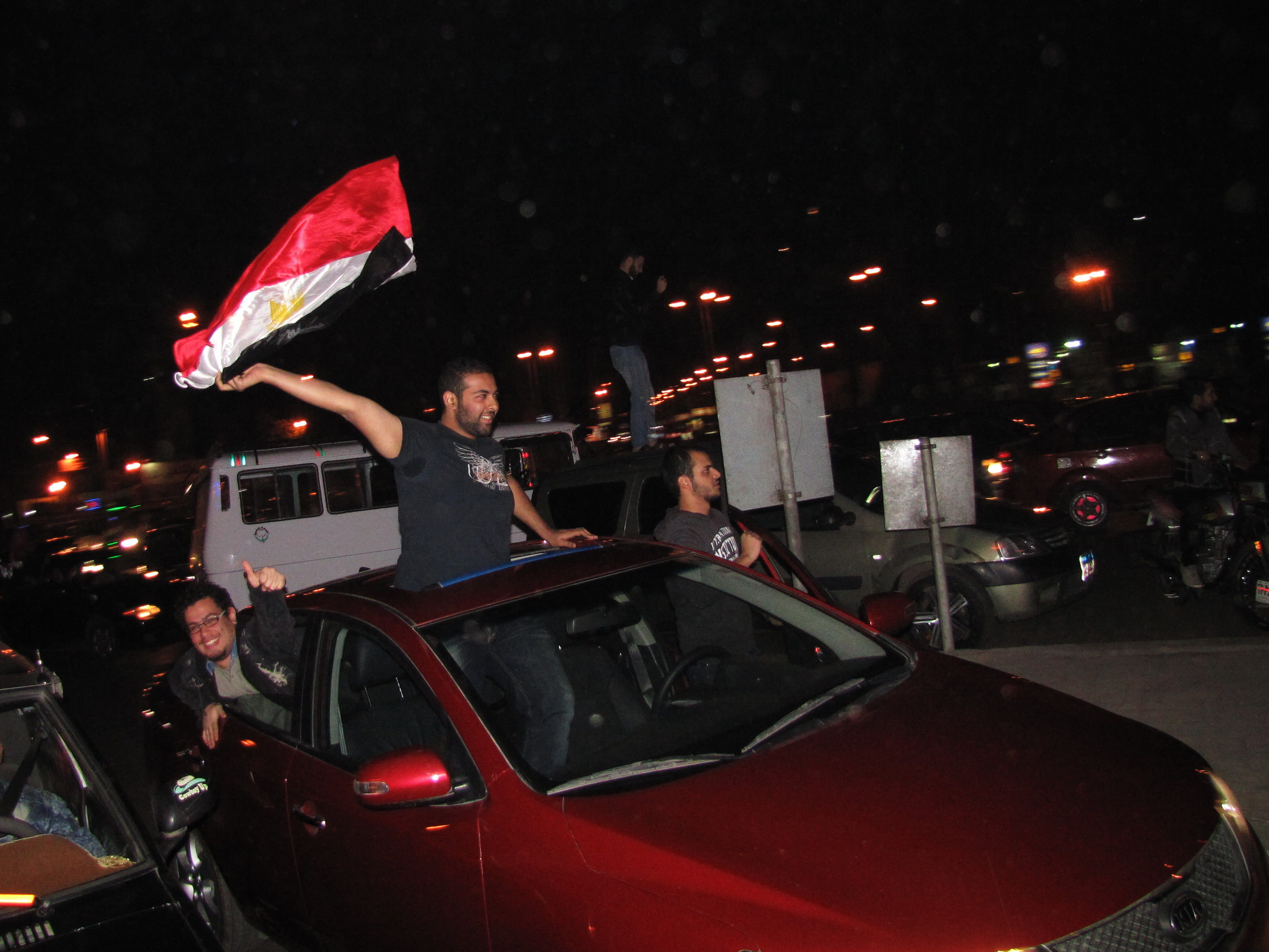 Egyptians celebrate Mubarak's resignation, during the Egyptian Revolution of 2011.